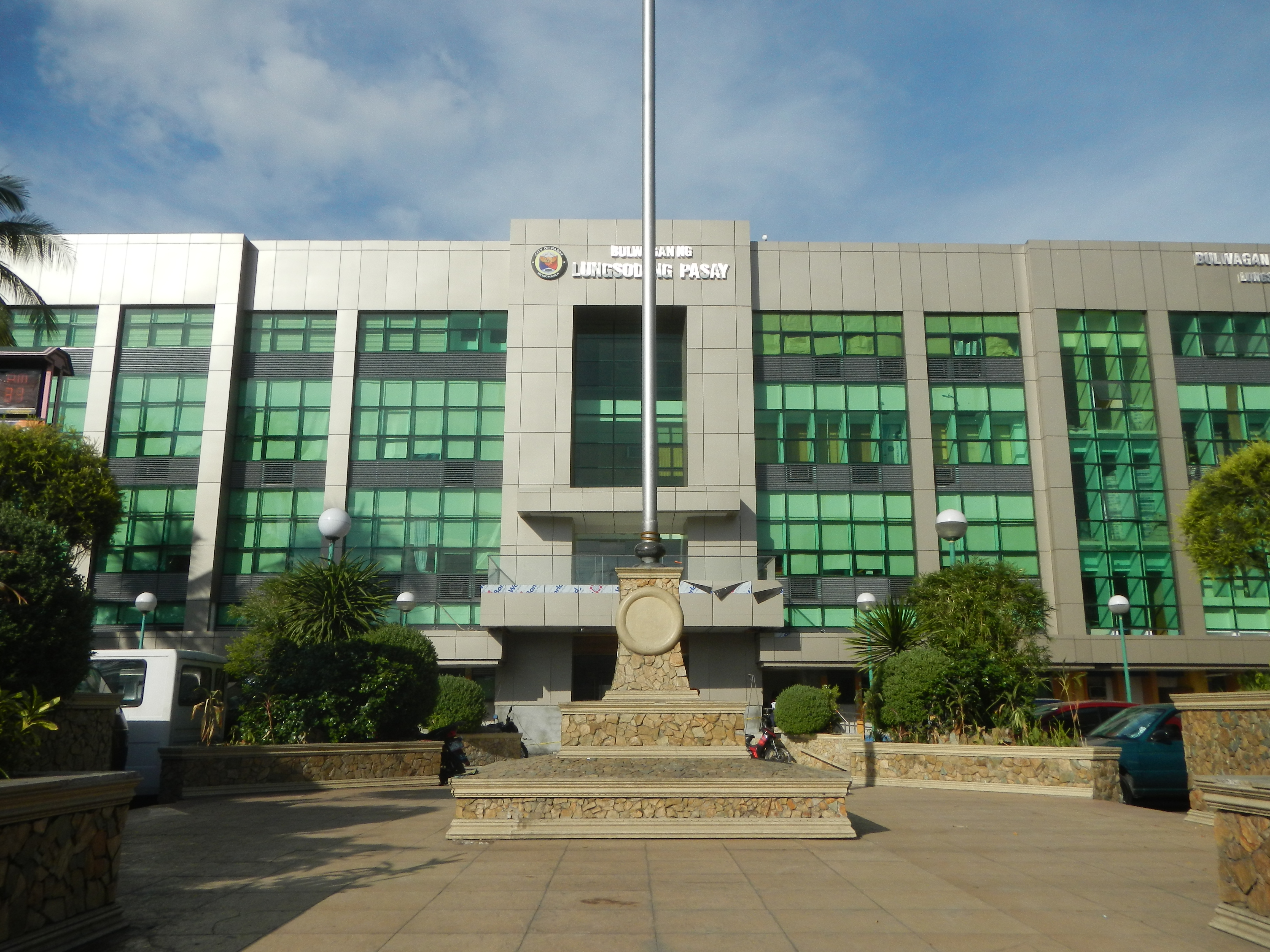 New Pasay City Hall along Harrison Avenue Francis Burton Harrison Avenue, known as F.B. Harrison Avenue , F.B. Harrison Street, Pasay City.